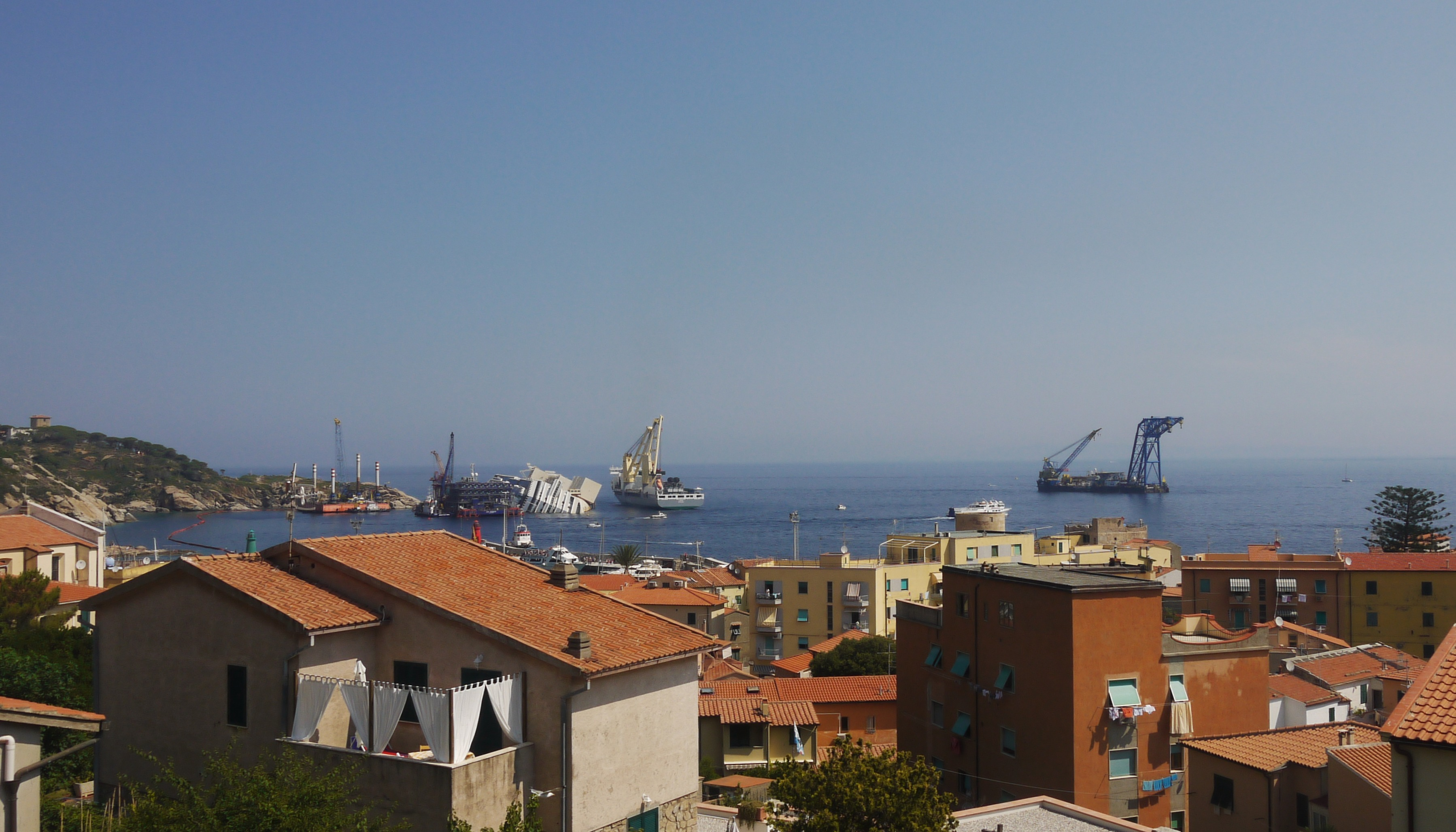 The village and harbour of Giglio Porto with the Concordia shipwreck and the crane vessel Micoperi 30